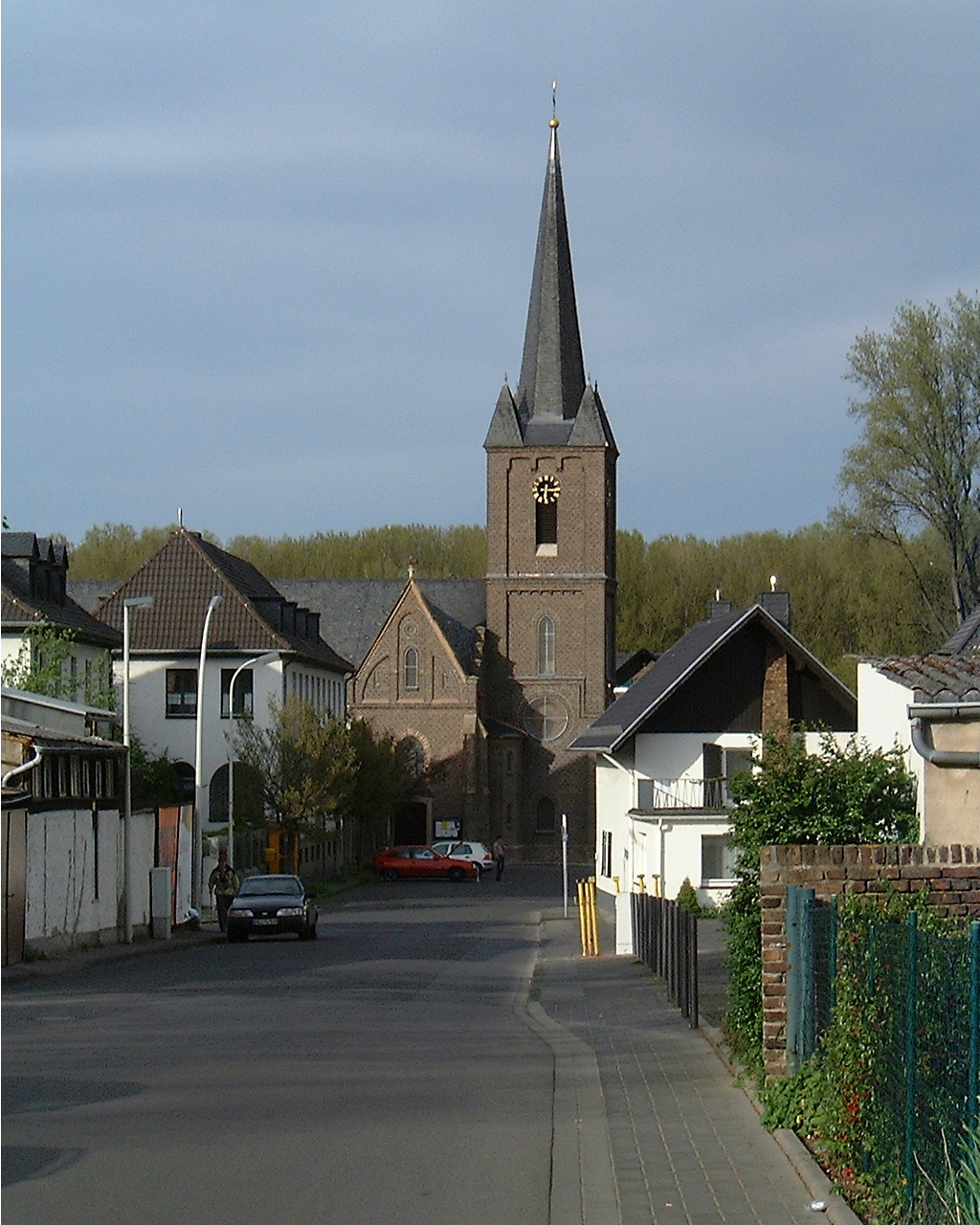 St. Margaretha church Bonn-Graurheindorf.